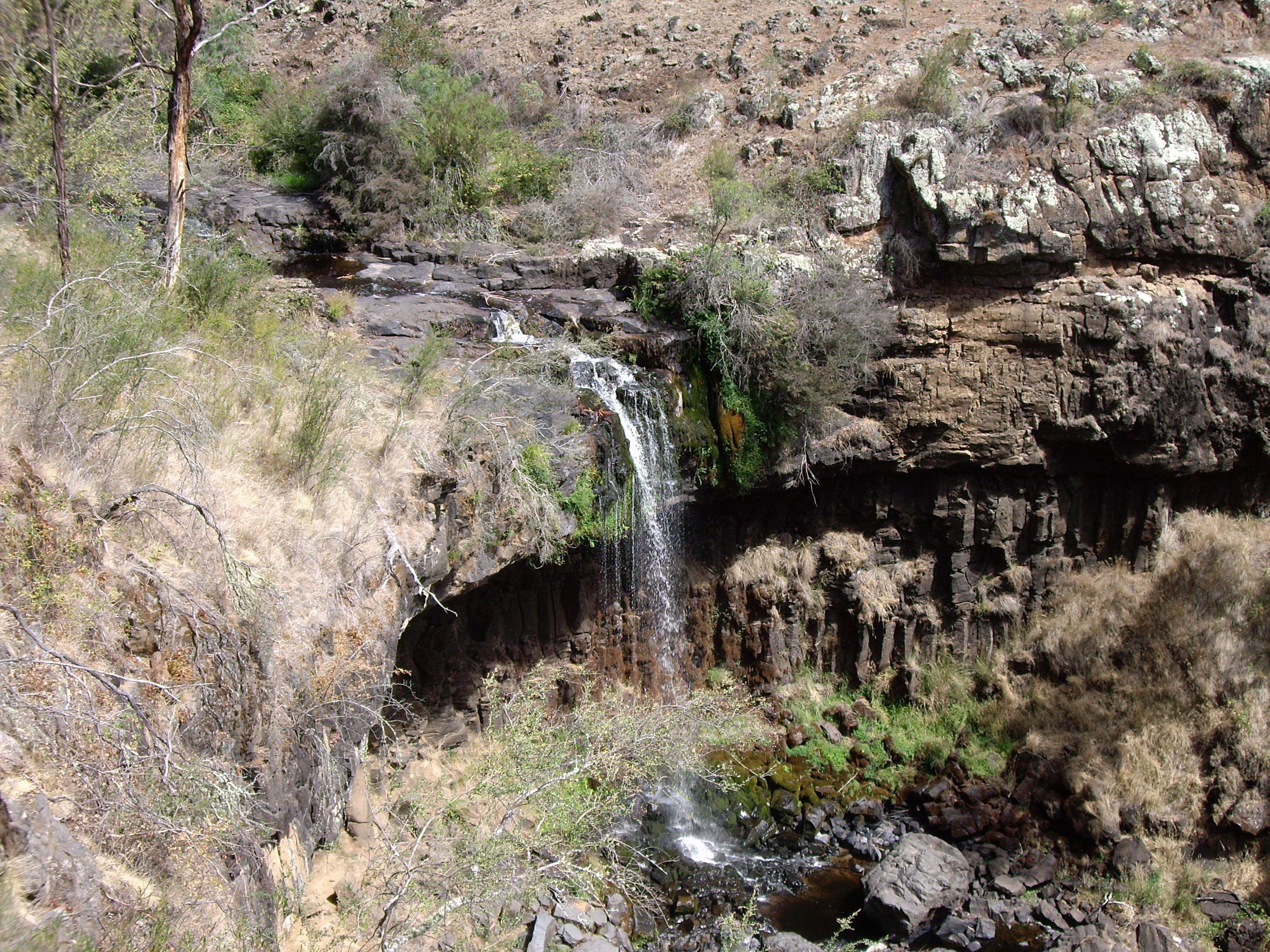 Photograph taken by VirtualSteve. Full catalogue of all my images uploaded to Wikipedia available here Images